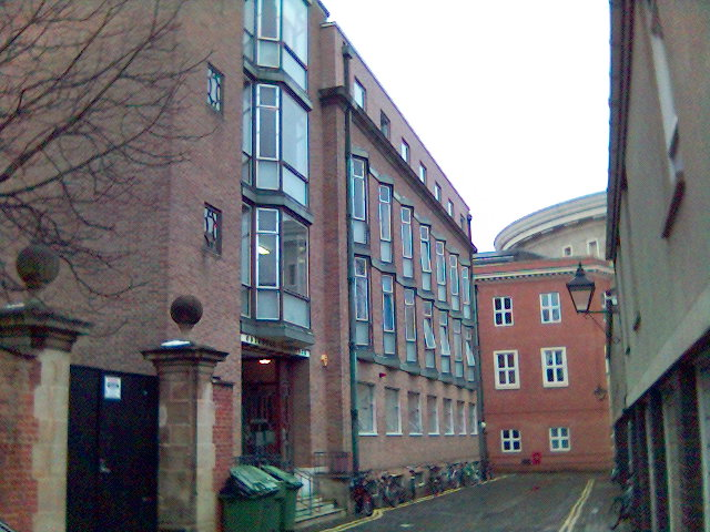 Photograph of the Oriental Institute, taken by Gareth Hughes on 9 February 2007.